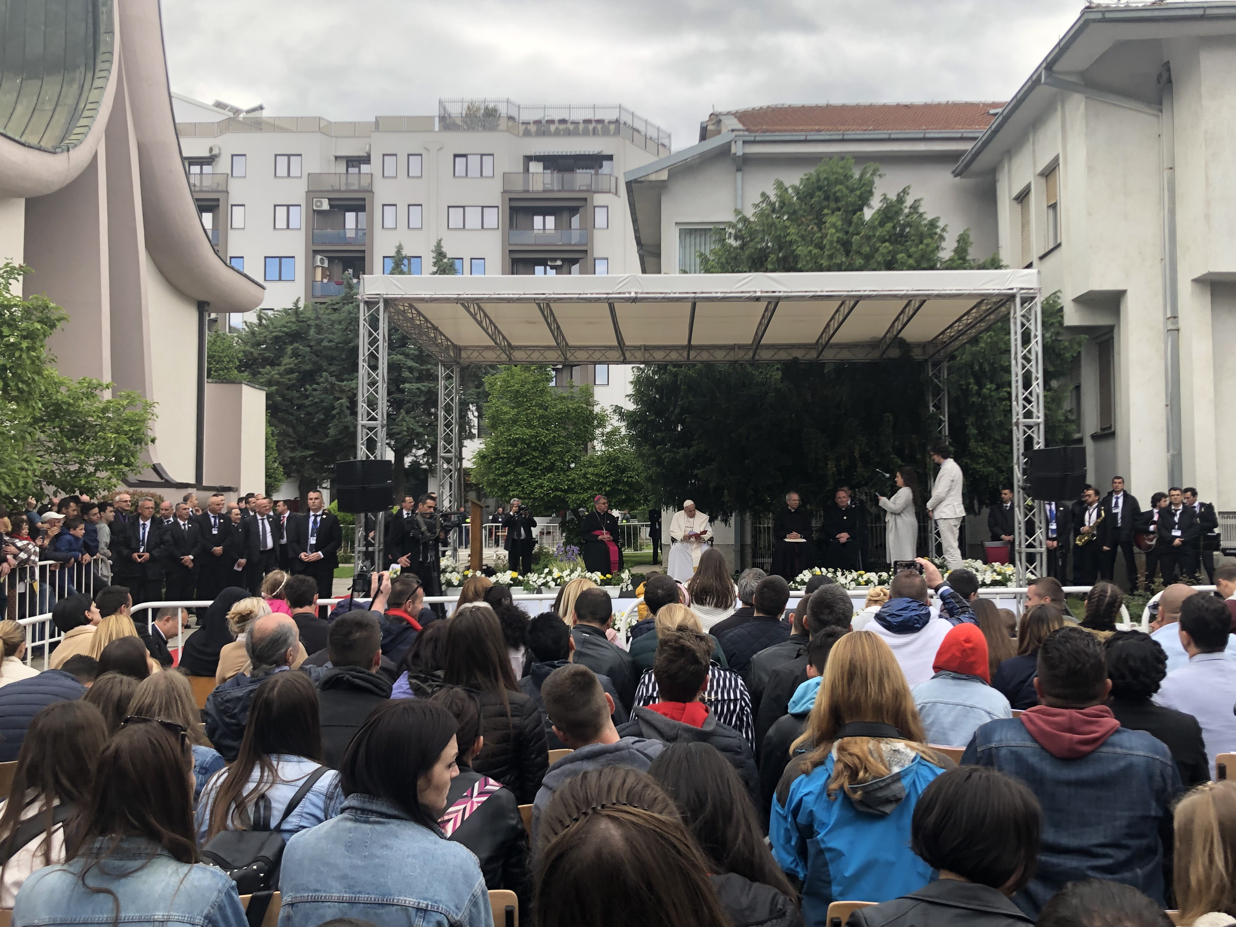 Pope Francis holding an ecumenical and interreligious meeting with young people in yard of the Catholic Church of Skopje on 7th of May, 2019